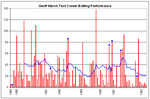 Test batting chart of Geoff Marsh. Red columns are the runs in the innings. Blue dots indicate not outs. Blue line is average in the last ten innings. Thanks to Raven4x4x for providing the template.